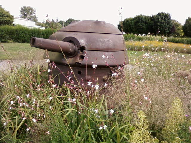 Soldat Beaulieu 's Memorial at Vieux Condé in the north of France.